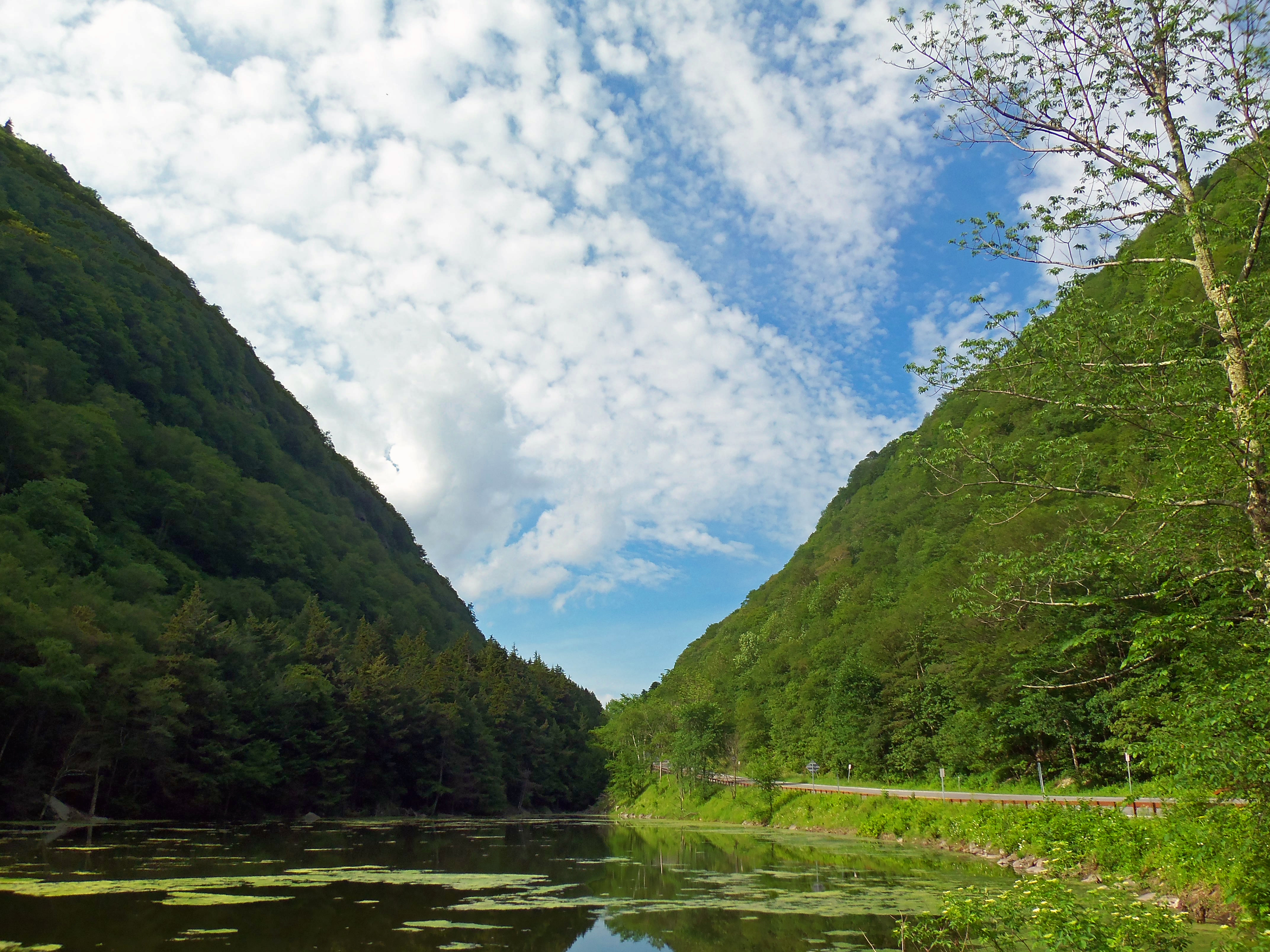 View north into Stony Clove Notch near Hunter, NY, USA, in the Catskill Mountains